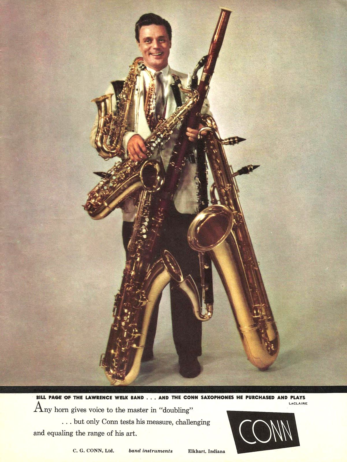 Publicity photo of Bill Page of the Lawrence Welk Band on behalf of Conn Band Inst. Original as "D. Beat" 1958